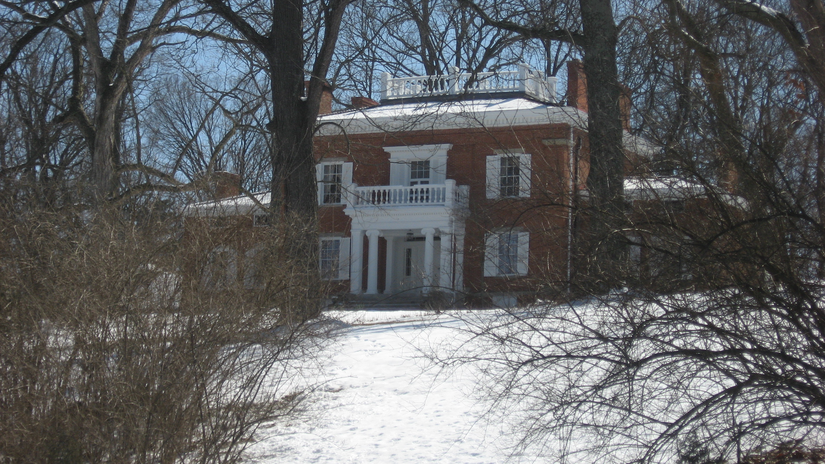 Front of Glendower, located at 105 Cincinnati Avenue (U.S. Route 42) in Lebanon, Ohio, United States. Built in 1836, it is listed on the National Register of Historic Places.